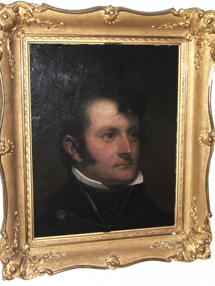 Daniel Oliver Guion